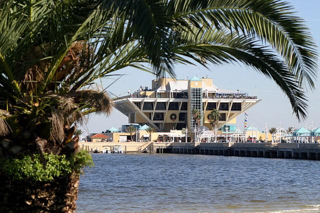 The Pier, St. Petersburg, FL. Photo by Ronnie Boone, November 26, 2004.